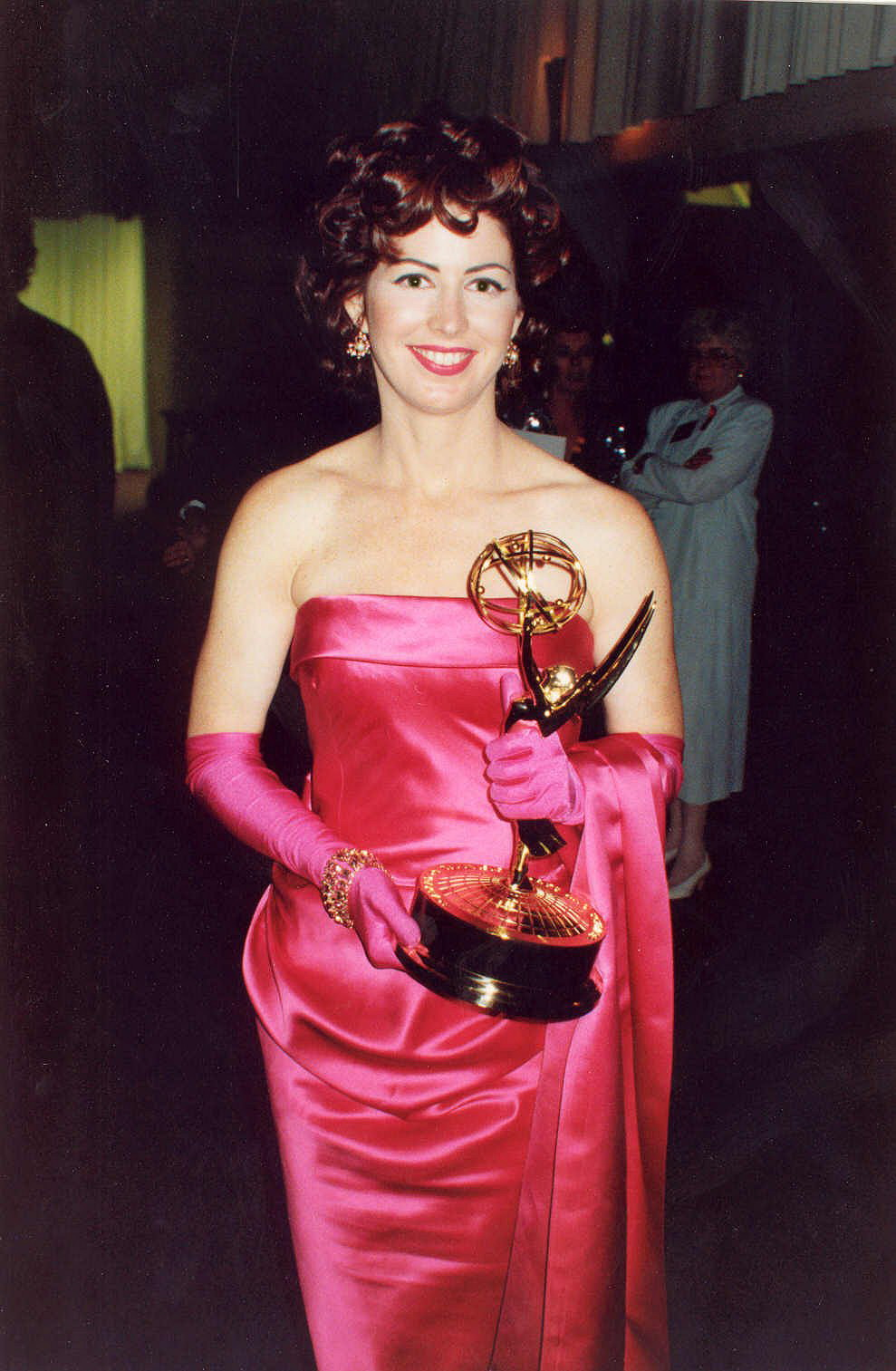 Dana Delany (then-star of China Beach) at Emmy Awards 1992